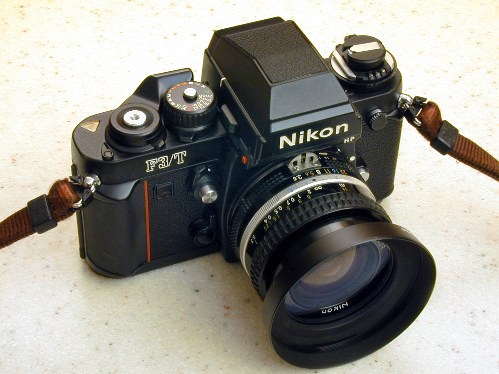 Nikon Fe/T Titanium camera with AIS Nikkor 20mm f/3.5 lens.